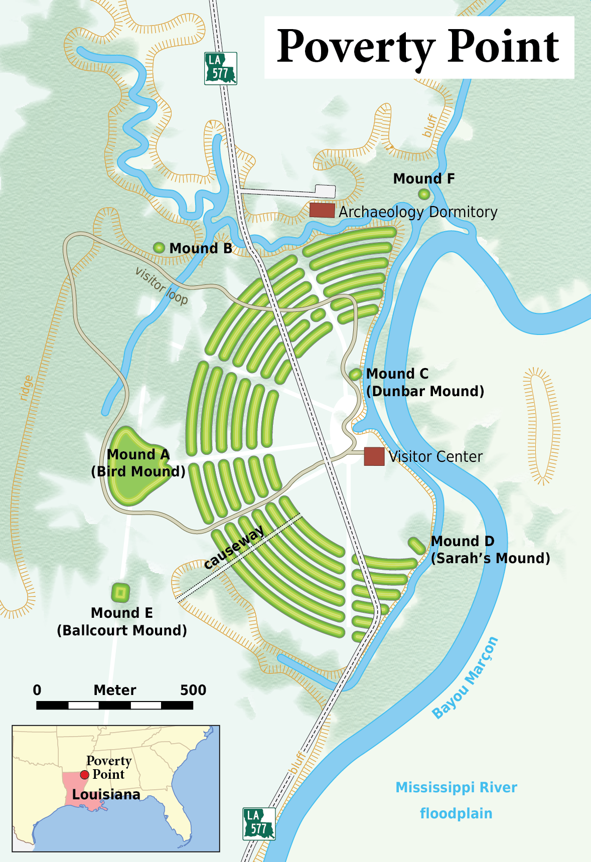 Map of the Poverty Point archaeological site